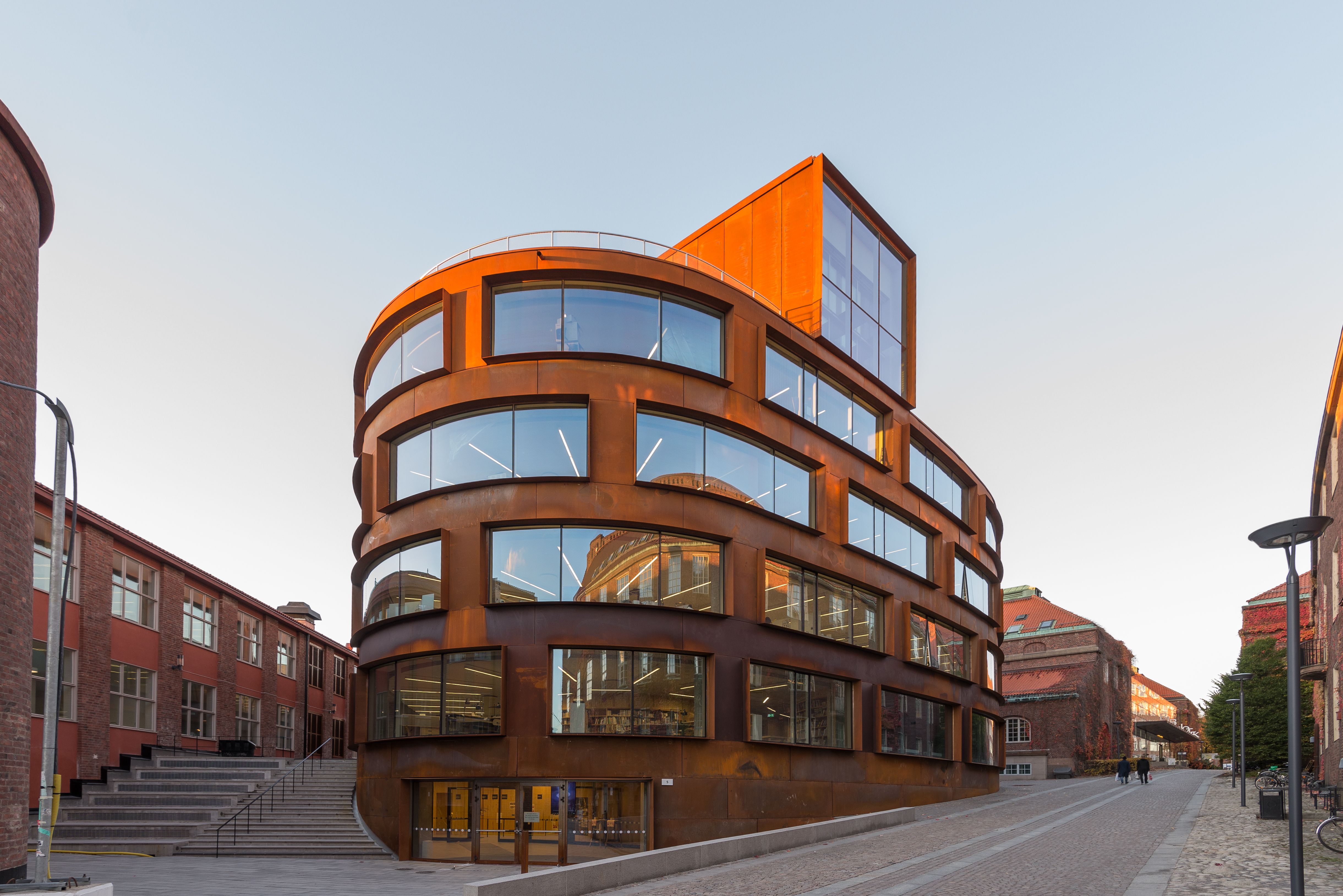 New building for School of Architecture and the Built Environment, part of the KTH Royal Institute of Technology. Stockholm, Sweden. Built 2013-2015. Architects:Tham & Videgård.